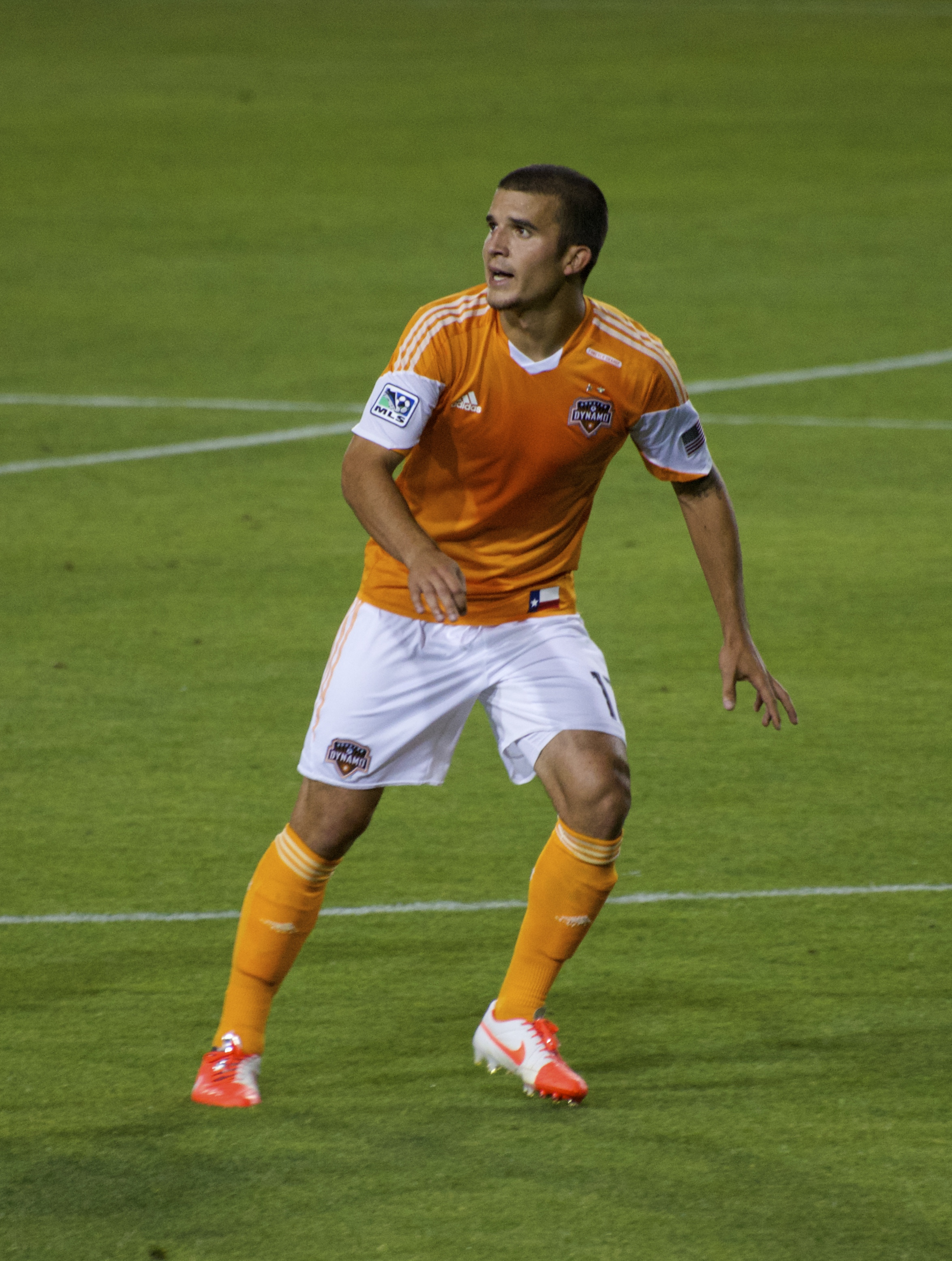 Servando Carrasco, Houston Dynamo vs San Jose Earthquakes, Buck Shaw Stadium, 25 May 2014